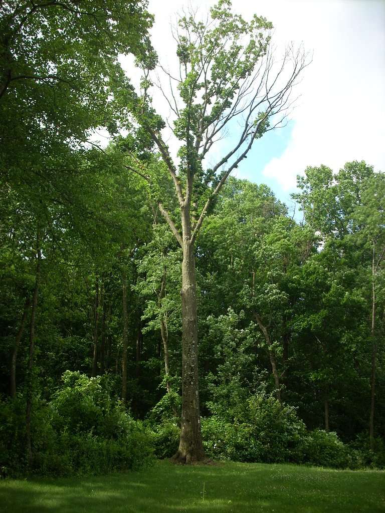 A fairly large tree at Boyd Big Tree Preserve Conservation Area is a Pennsylvania state park in Dauphin County, Pennsylvania, USA.